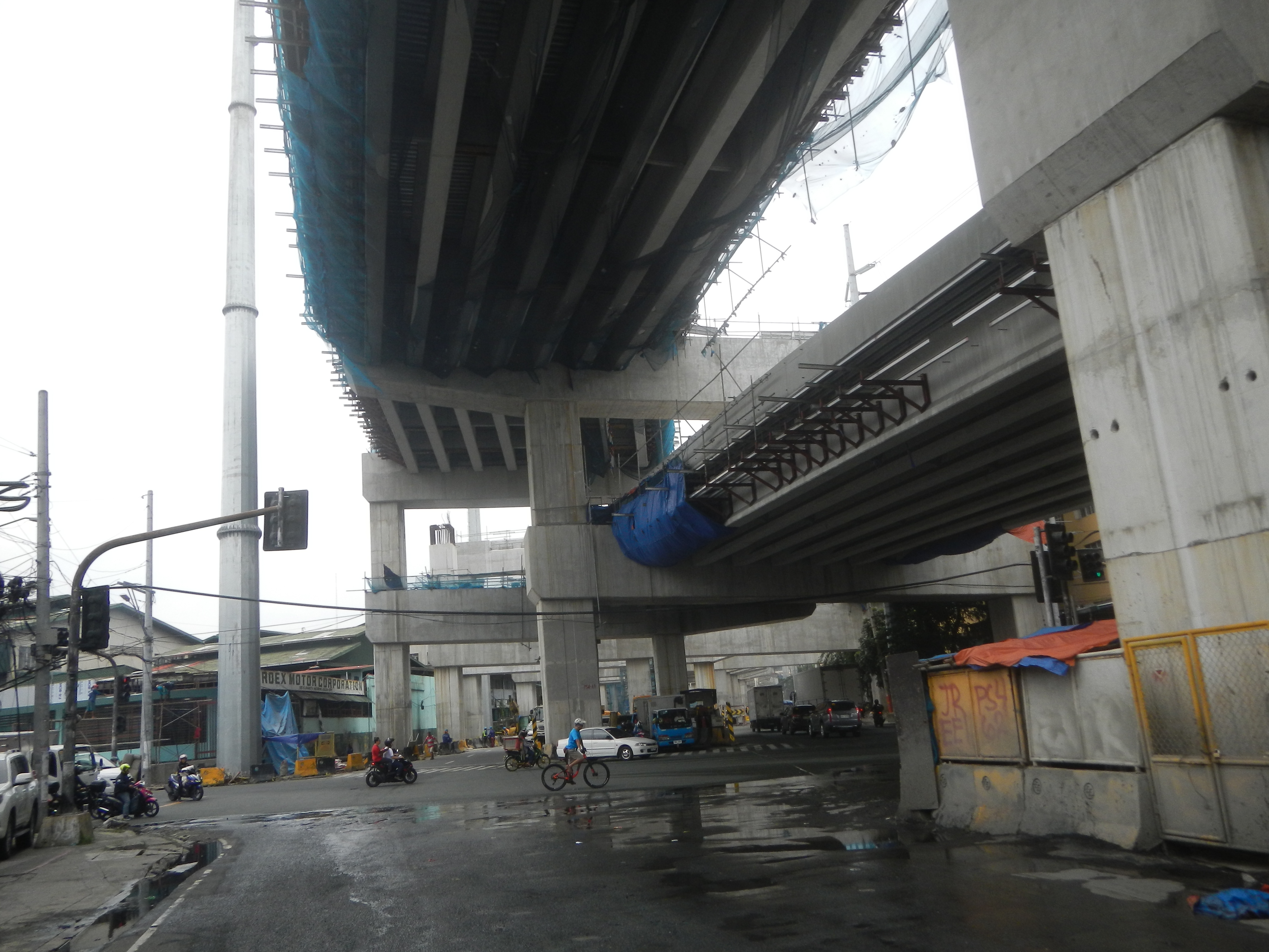 Cloudy skies due to monsoon and Tropical Depression Marilyn in Metro Manila Skyway Stage 3 Project Section 1 (Gregorio Araneta Avenue corners Banaue Street, Quezon Avenue & E. Rodriguez Sr. Avenue - Manresa, Talayan, Santo Domingo & Tatalon, SFDM) Gregorio Araneta Avenue Gregorio Araneta Avenue Extension Quezon Avenue to E. Rodriguez Sr. Avenue (C-5) 14°37'18"N 121°1'29"E Tropical Depression Marilyn Tropical Depression Marilyn Cloudy skies Metro Manila Skyway Stage 3 Skyway 3 interconnecting with North Luzon Expressway Segment 10.1 (Harbor Link, Phase II Manila, Caloocan City) constructions interconnecting with Circumferential Road 3 (Caloocan City section) Circumferential Road 3 Sgt. Rivera Avenue Skyway Stage 3 to partially open September, 2019 Skyway Stage 3 is an 18.68-kilometer elevated expressway stretched over Metro Manila from Gil Puyat or Buendia in Makati City to Balintawak, Caloocan and Quezon City; List of barangays of Metro Manila, Legislative districts of Quezon City Districts 4, Barangays of Quezon City, Manresa 14.6411, 120.9974 Talayan 14.6344, 121.0081 Santo Domingo 14.6295, 121.0044 and Tatalon 14.6234, 121.0108 Quezon City interconnecting with C-3 Road-Sgt Rivera St. near cor A. Bonifacio Ave. (Quezon City) 14°38'38"N 120°59'39"E to Banawe Street 14°38'17"N 121°0'2"E to Terminus North Luzon Expressway, in Balintawak, Philippine highway network (Note: Judge Florentino Floro, the owner, to repeat, Donor Florentino Floro of all these photos hereby donate gratuitously, freely and unconditionally Judge Floro all these photos to and for Wikimedia Commons, exclusively, for public use of the public domain, and again without any condition whatsoever).